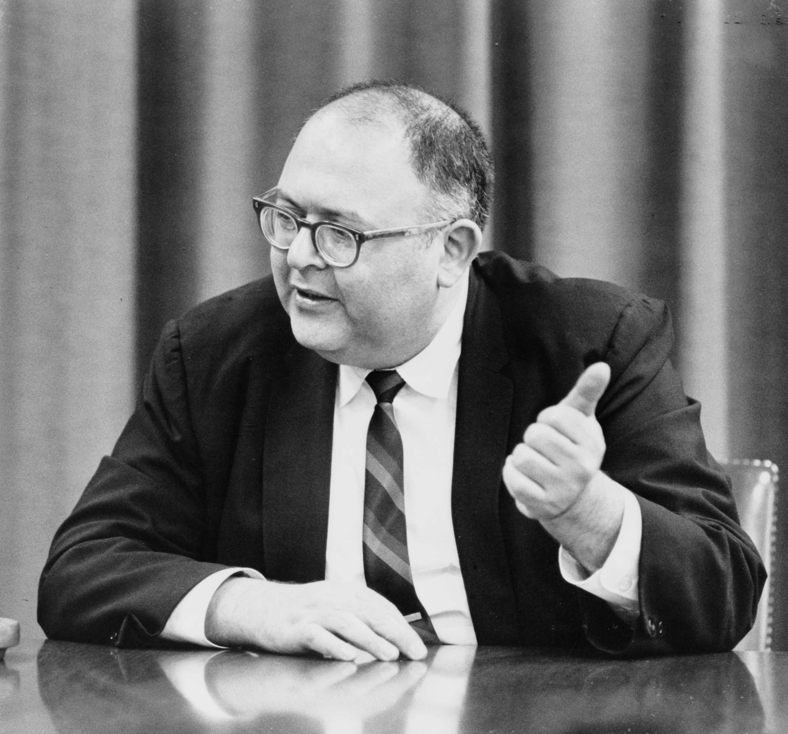 Interview with Herman Kahn, author of On Escalation.